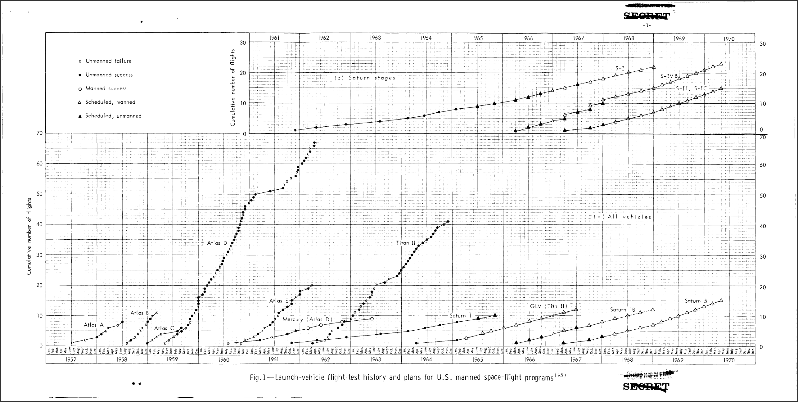 A graph showing by month, the cumulative number of USAF ICBM and NASA launch vehicle flight tests, marking successes and failures as of 1965, along with future scheduled launches planned by NASA. Launches of boosters with less than intercontinental range (ie, Redstone IRBMs) are not shown. The human spaceflight program was a highly visible means of demonstrating ICBM booster reliability, translating directly to national defense implications, during a period when the new developing technology had an extremely high failure rate. At the time of the first Mercury-Atlas orbital astronaut flight by John Glenn, more than 100 Atlas's had been launched with a track record of nearly half failures (48). Exactly half of the first 22 Titan missile launches failed (11). NASA acquired their boosters straight from the same manufacturing source that the Air Force procured their nuclear weapon boosters from, with the NASA rockets even being delivered with Air Force serial numbers. By the time of the NASA Gemini-Titan astronaut launches, reliability had been firmly established with an unbroken string of successful launches that carried through Apollo-Saturn dominance and the Moon landings (projected on this 1965 chart).